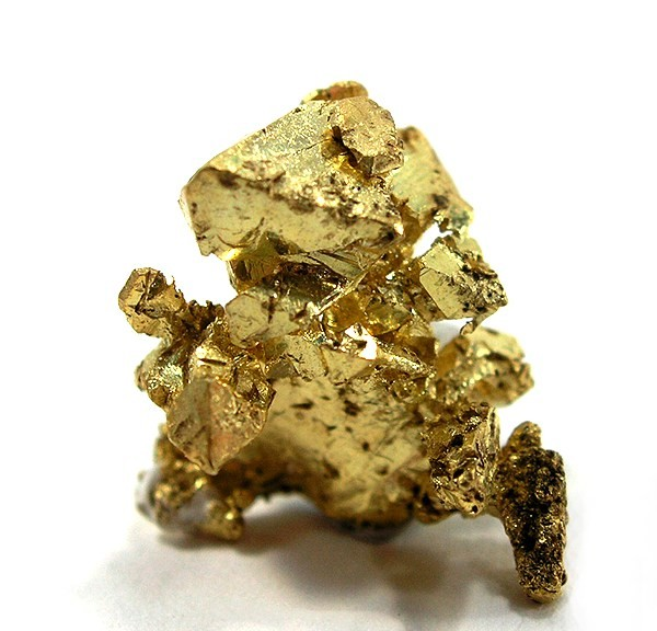 Gold Locality: Colorado Mine (Colorado Quartz Mine), Colorado, Whitlock District, Bagby-Mariposa-Mount Bullion-Whitlock District, Mariposa County, California, USA (Locality at ) This is a choice thumbnail of native gold, comprised of bright, lustrous, well formed octahedrons to .5 cm across. These octohedrons are unusually sharp and 3-D! 1.1 x 1.1 x 0.7 cm